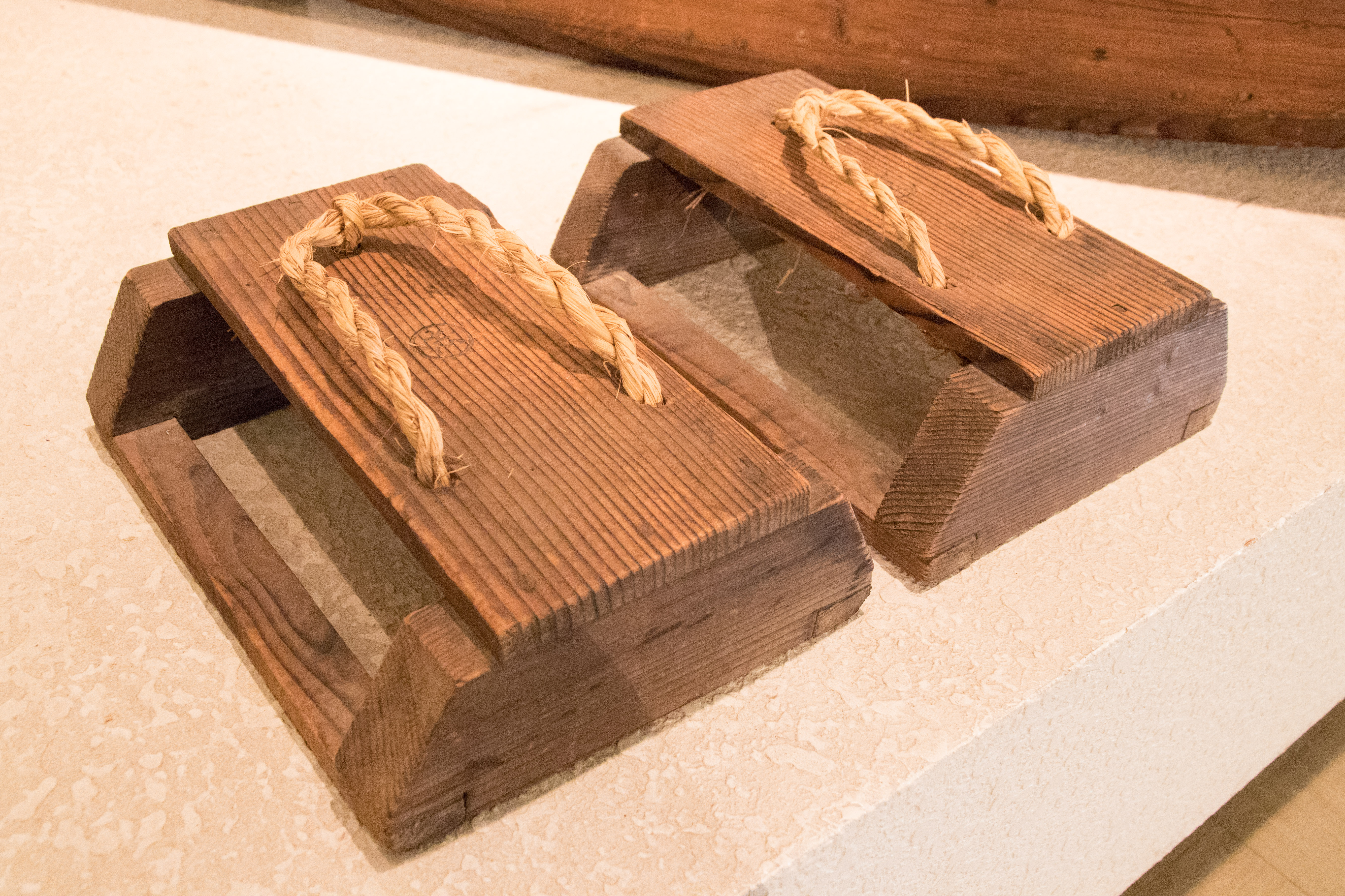 Tageta（田下駄）, which is traditional Japanese footwear used for planting rice.